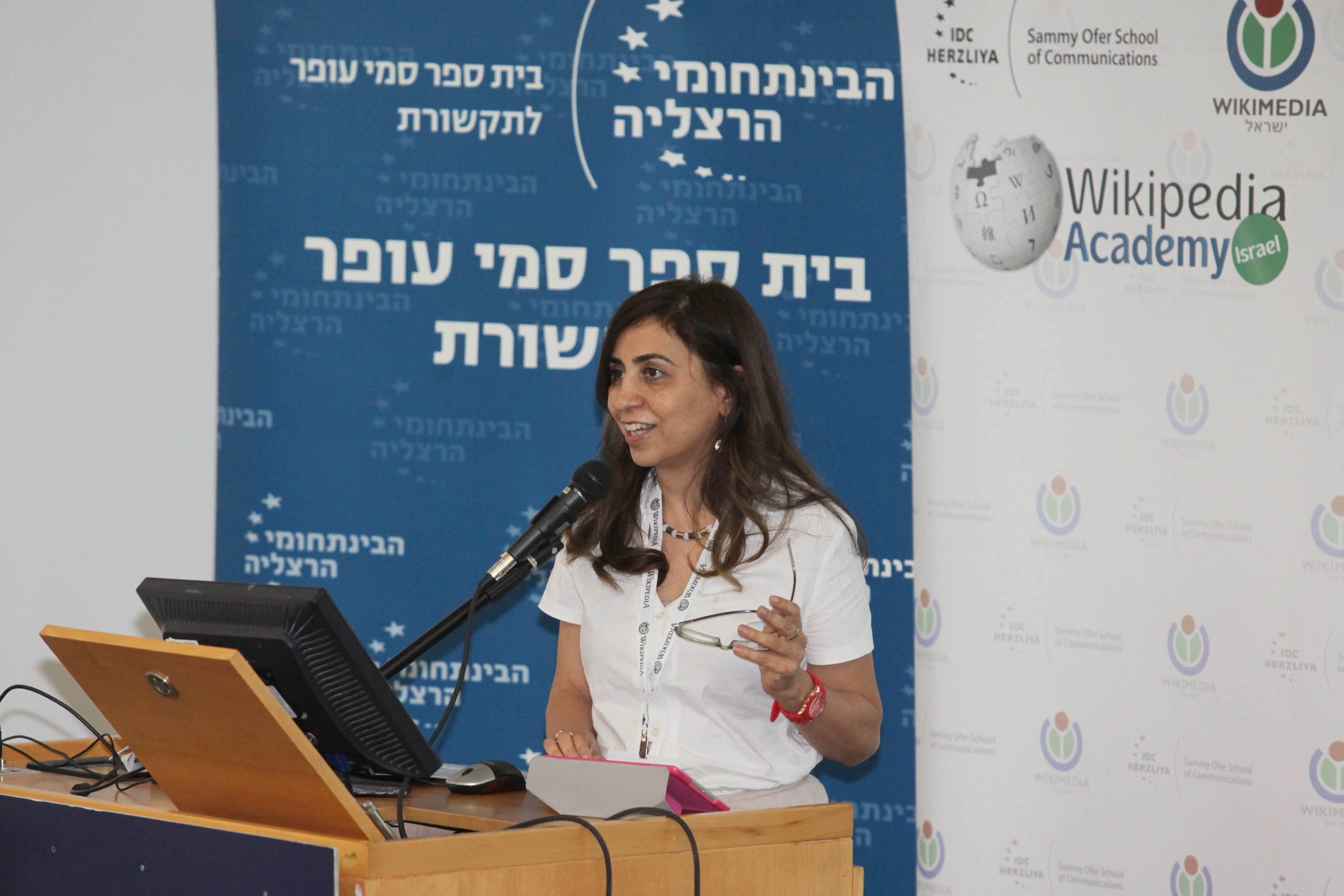 Fifth Wikipedia Academy Israel Conference – "Why Do Women Edit Wikipedia Less"? Photo:Oren Shelv, Wikimedia Israel